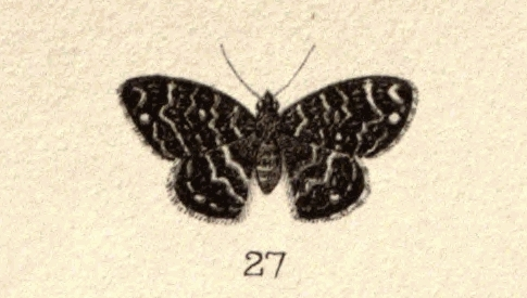 Fig. 27 Plate VIII from New Zealand moths and butterflies (Macro-lepidoptera) by George Vernon Hudson. Originally described by Hudson as Notoreas isoleuca but subsequently described by Edward Meyrick as a new species Notoreas ischnocyma. The image is of a female specimen.